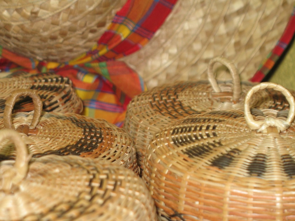 Dominica, Carib territory